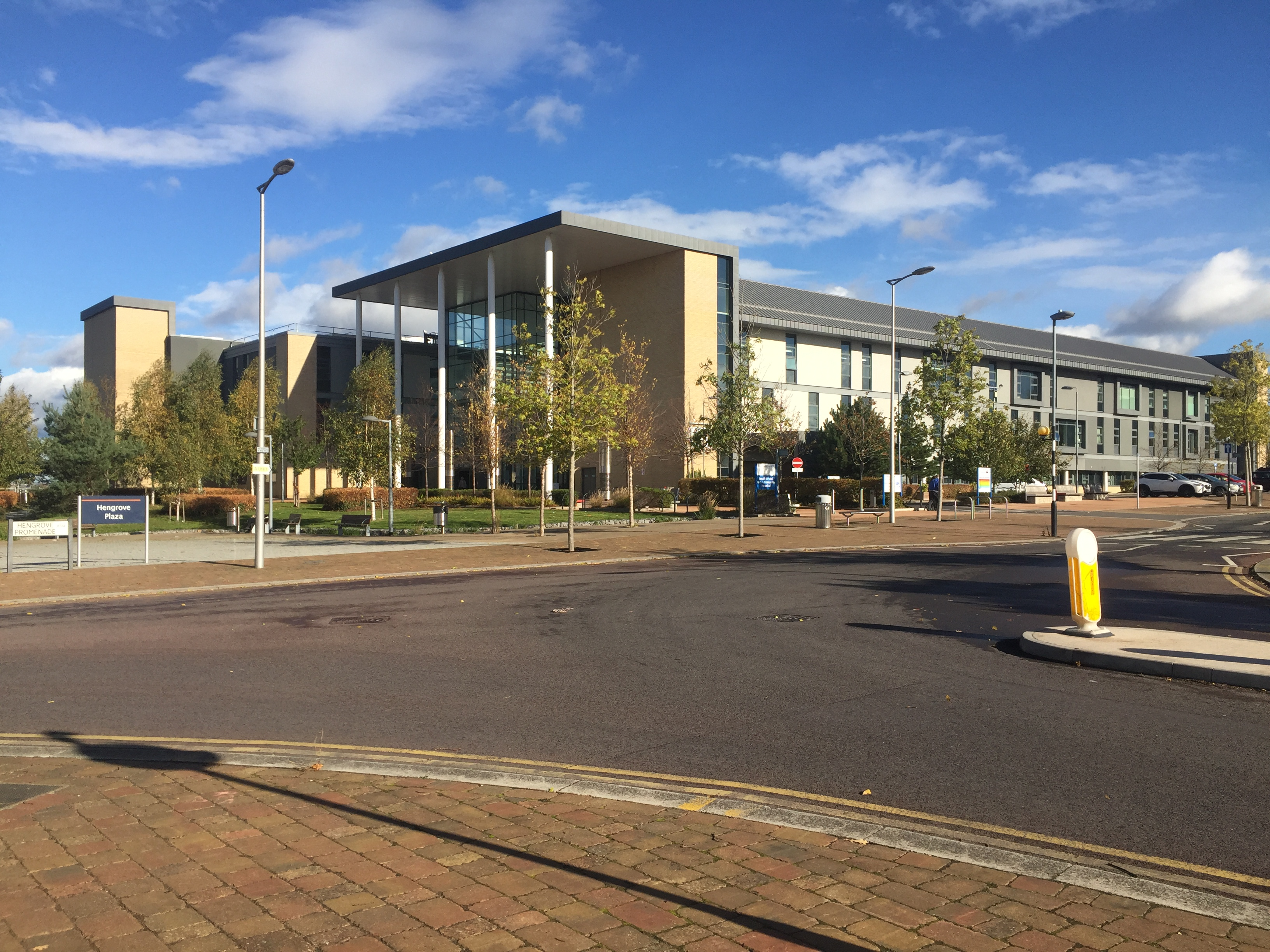 South Bristol Community Hospital in Hengrove. A relatively small hospital, with no A&E, but it does have a minor injuries unit.